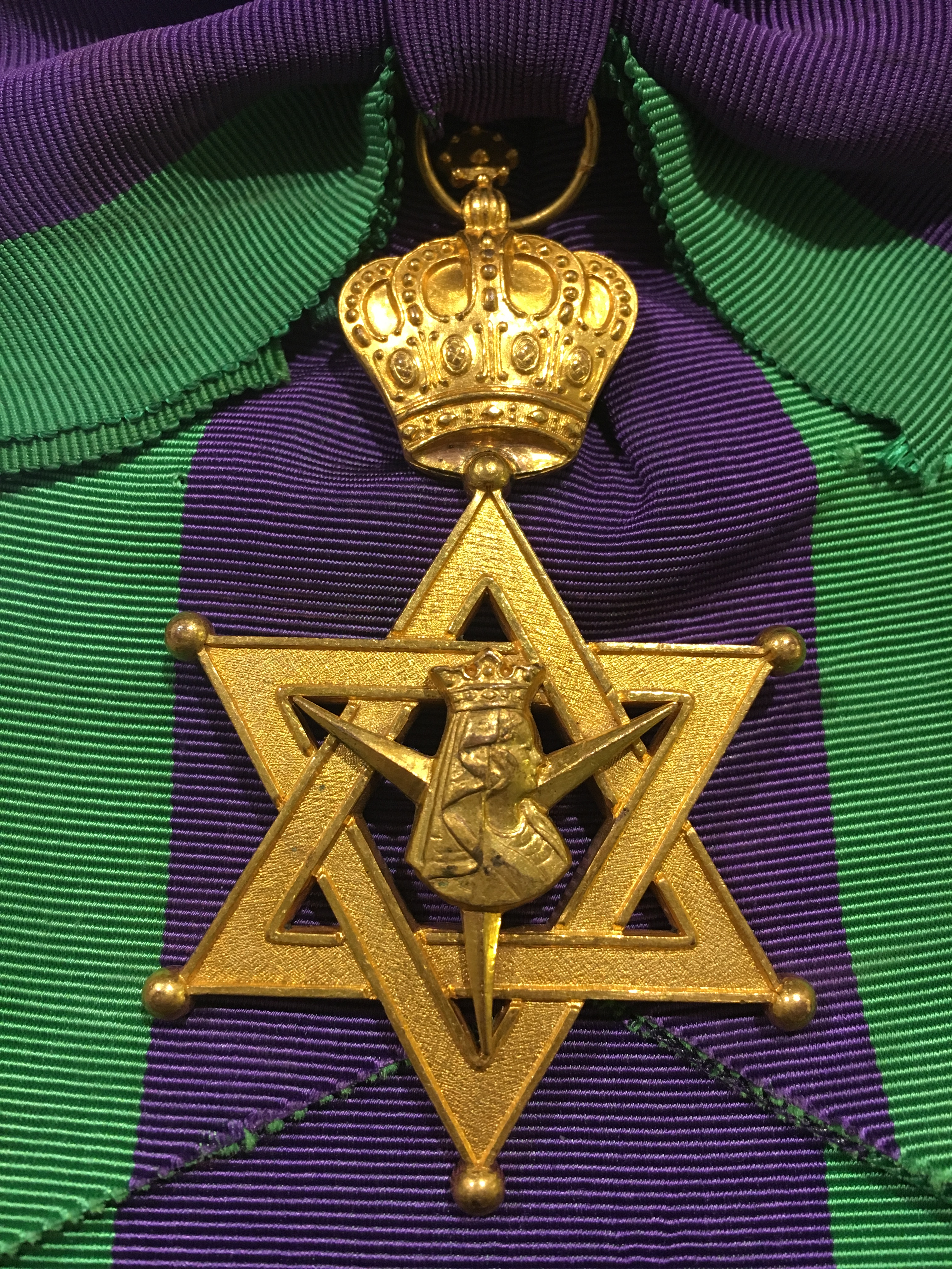 Grand Cross Sash badge of the Order of the Queen of Sheba, Ethiopian Empire. Private Collection